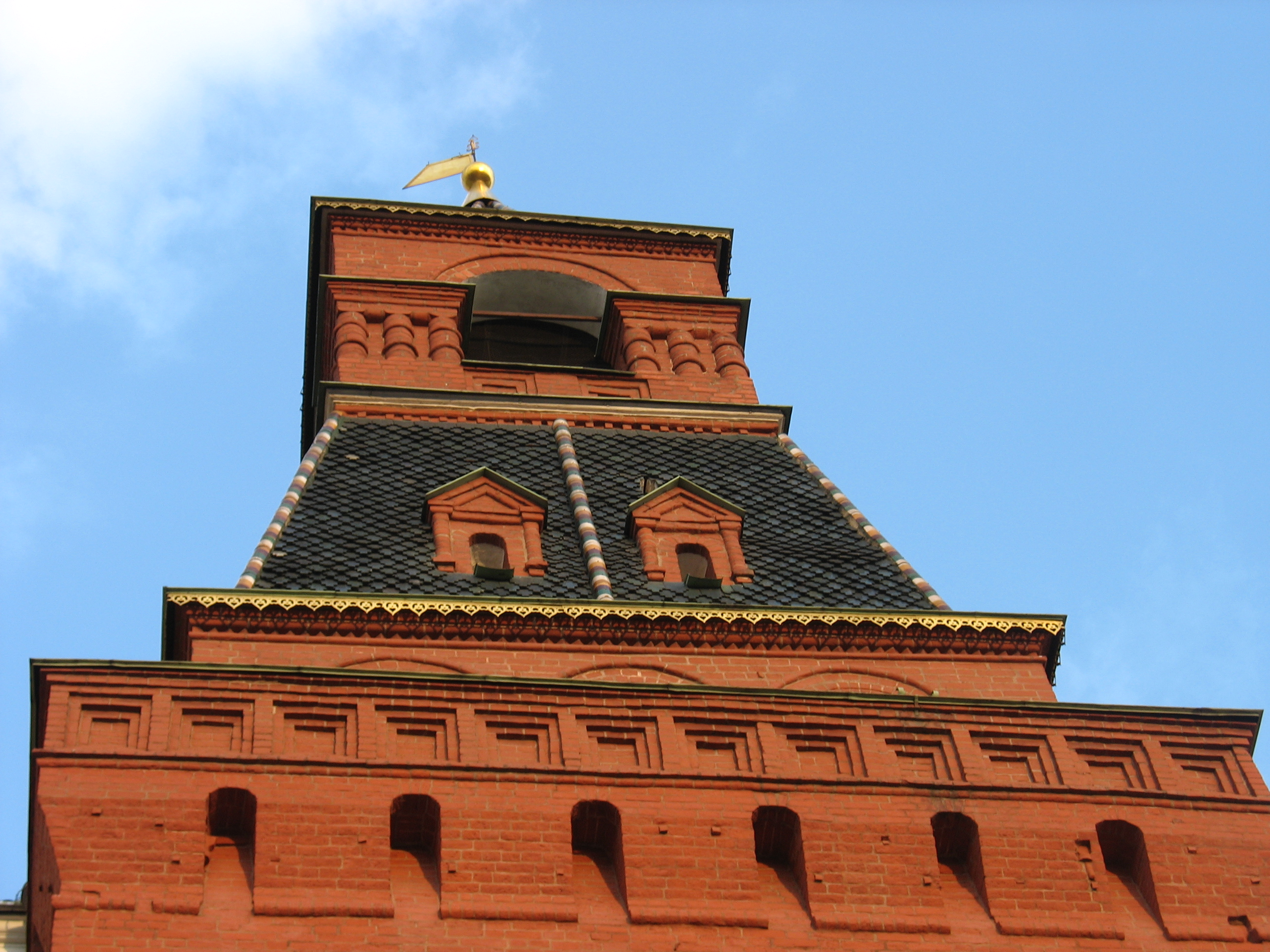 Middle Arsenalnaya tower of Moscow Kremlin